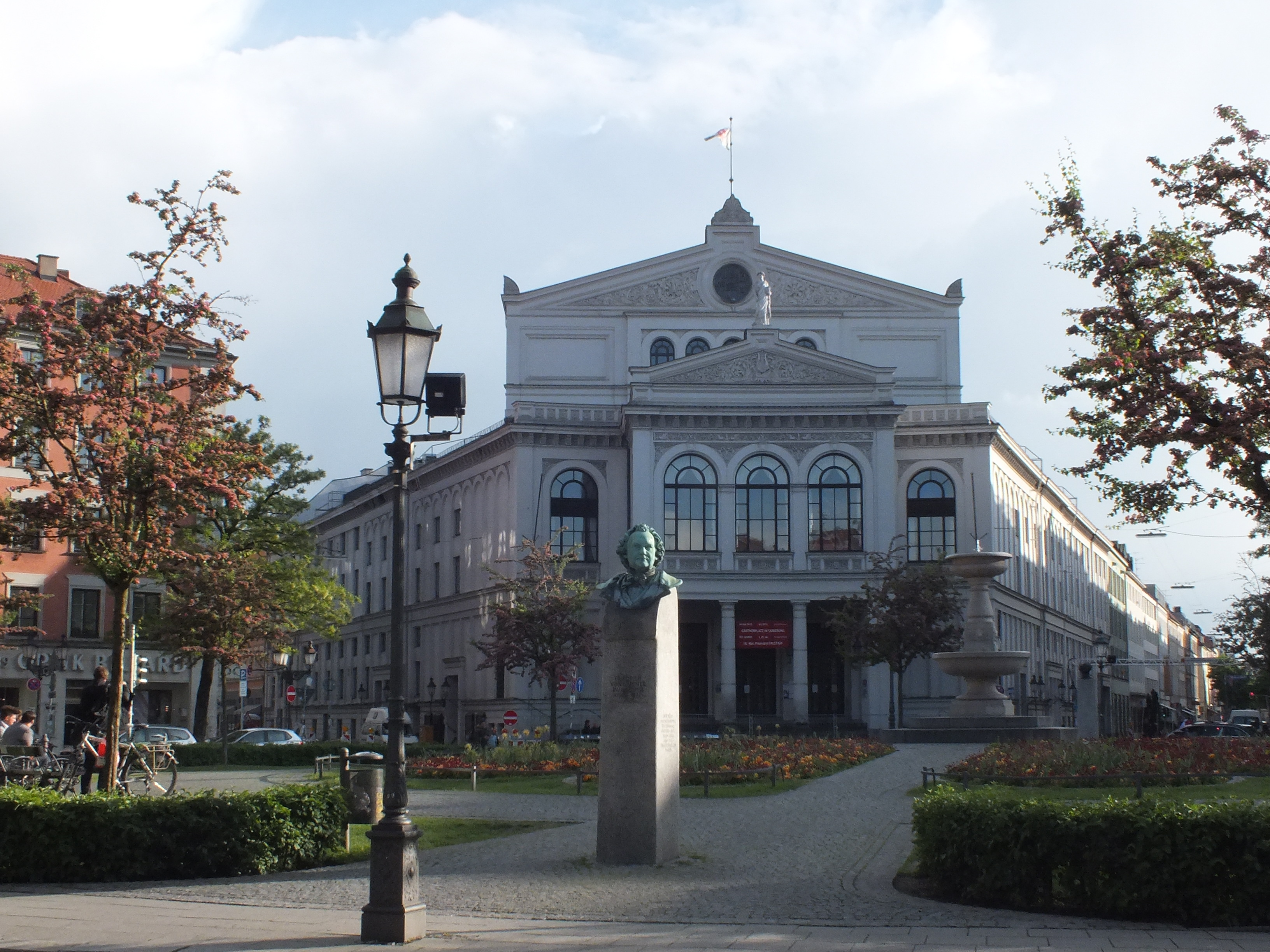 see file name